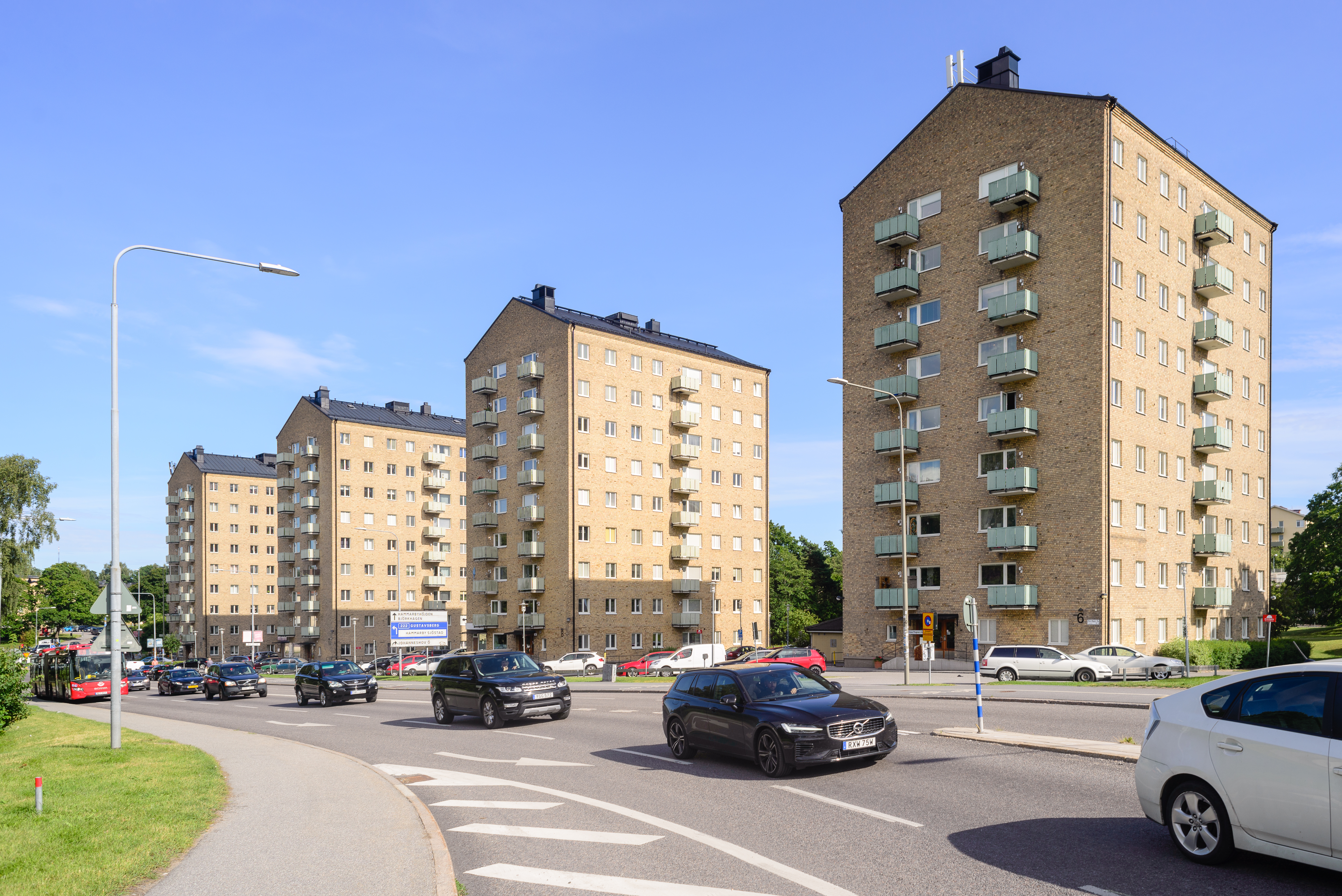 The street Olaus Magnus väg in Hammarbyhöjden, Stockholm.